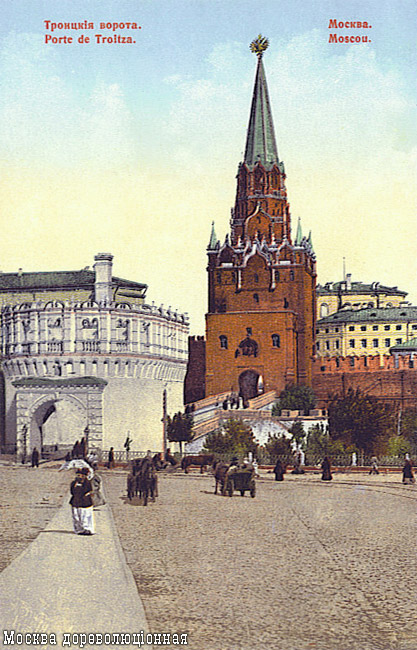 pre-revolutionaty russian postcard of Kutafya and Troitskaya towers of Kremlin